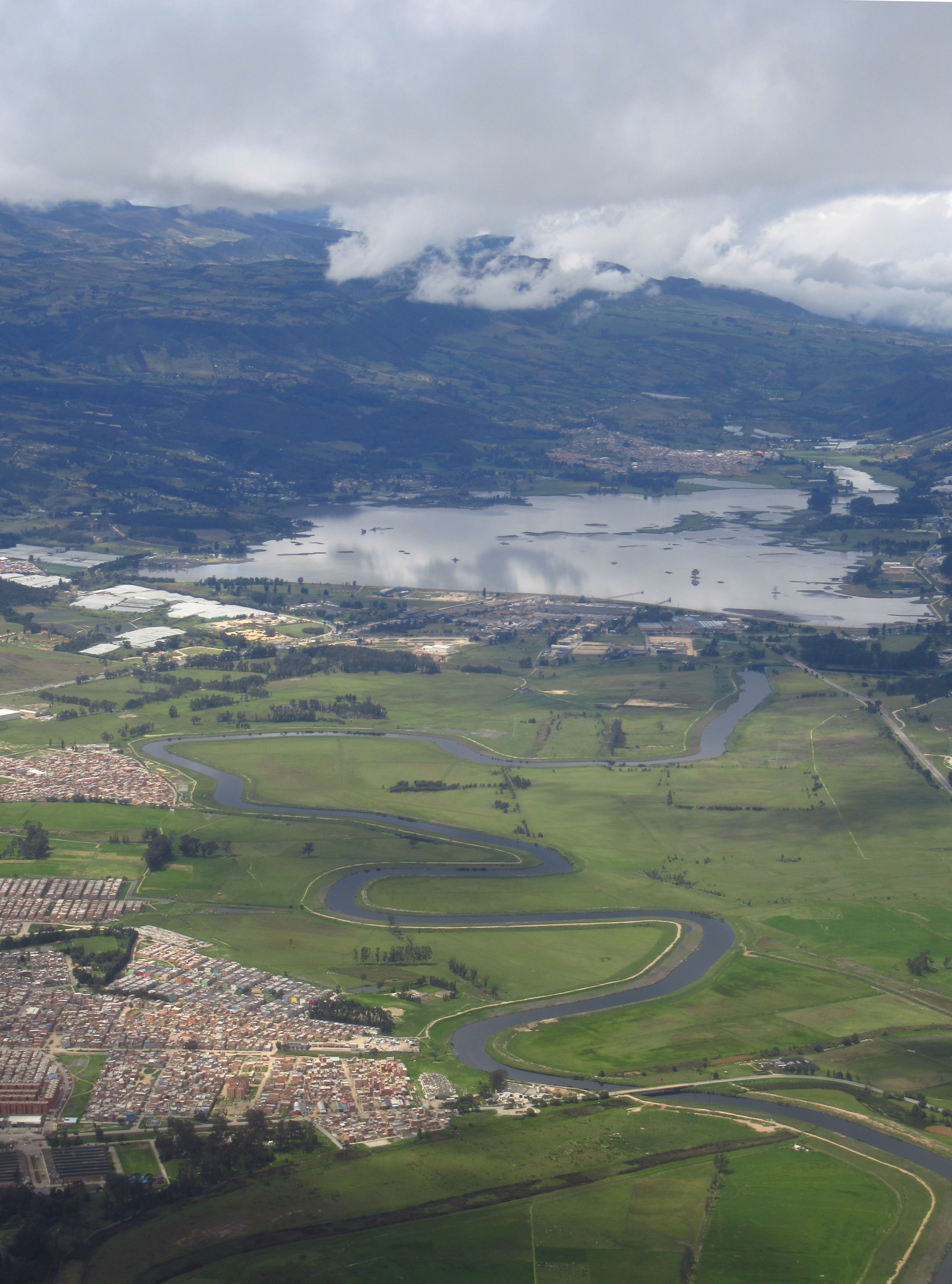 embalse del Muña